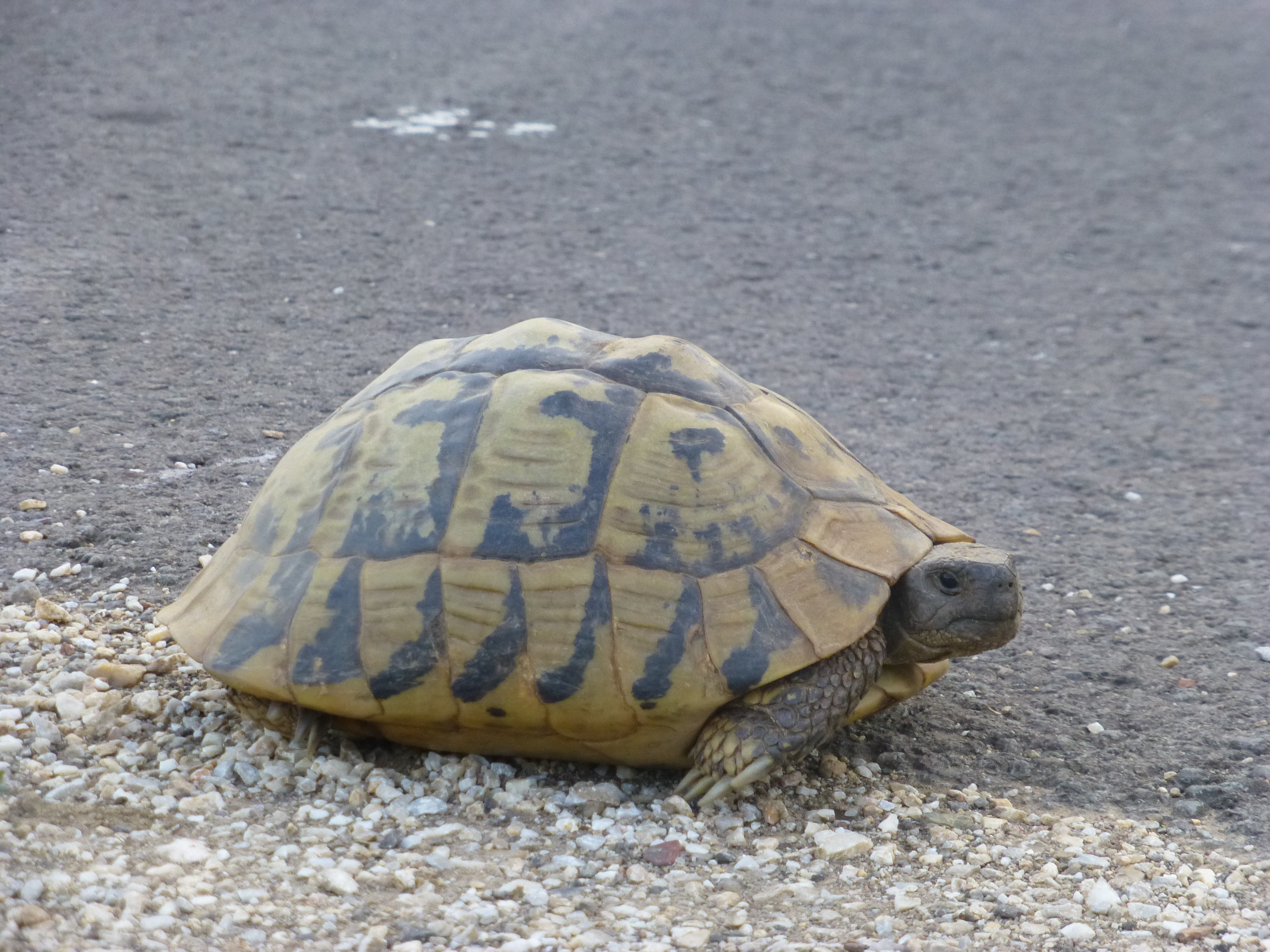 A tortoise on the Macedonian Hwy P1306, between Kruševo and Demir Hisar